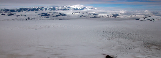 Aerial photo of Bagley Icefield, Wrangell-St. Elias National Park, Alaska, USA.